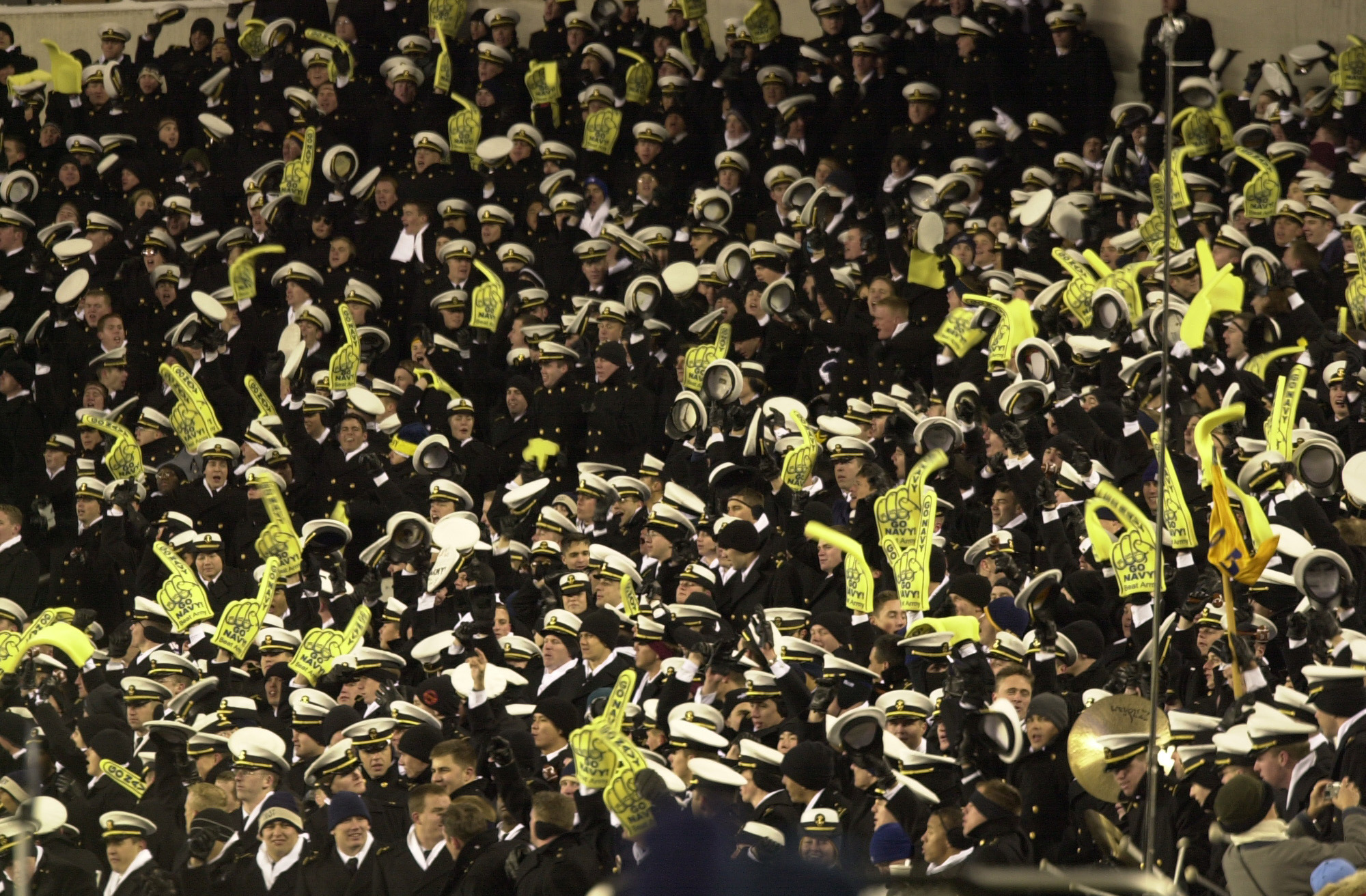 Philadelphia, Pa. (Dec. 6, 2003) -- The U.S. Naval Academy Brigade of Midshipmen cheers for their football team during the 104th Army Navy Game. The Navy went on to defeat the Black Knights of Army by a score of 34-6, and have been invited to play at the Houston Bowl on December 30th. U.S. Navy photo by Damon J. Moritz. (RELEASED)